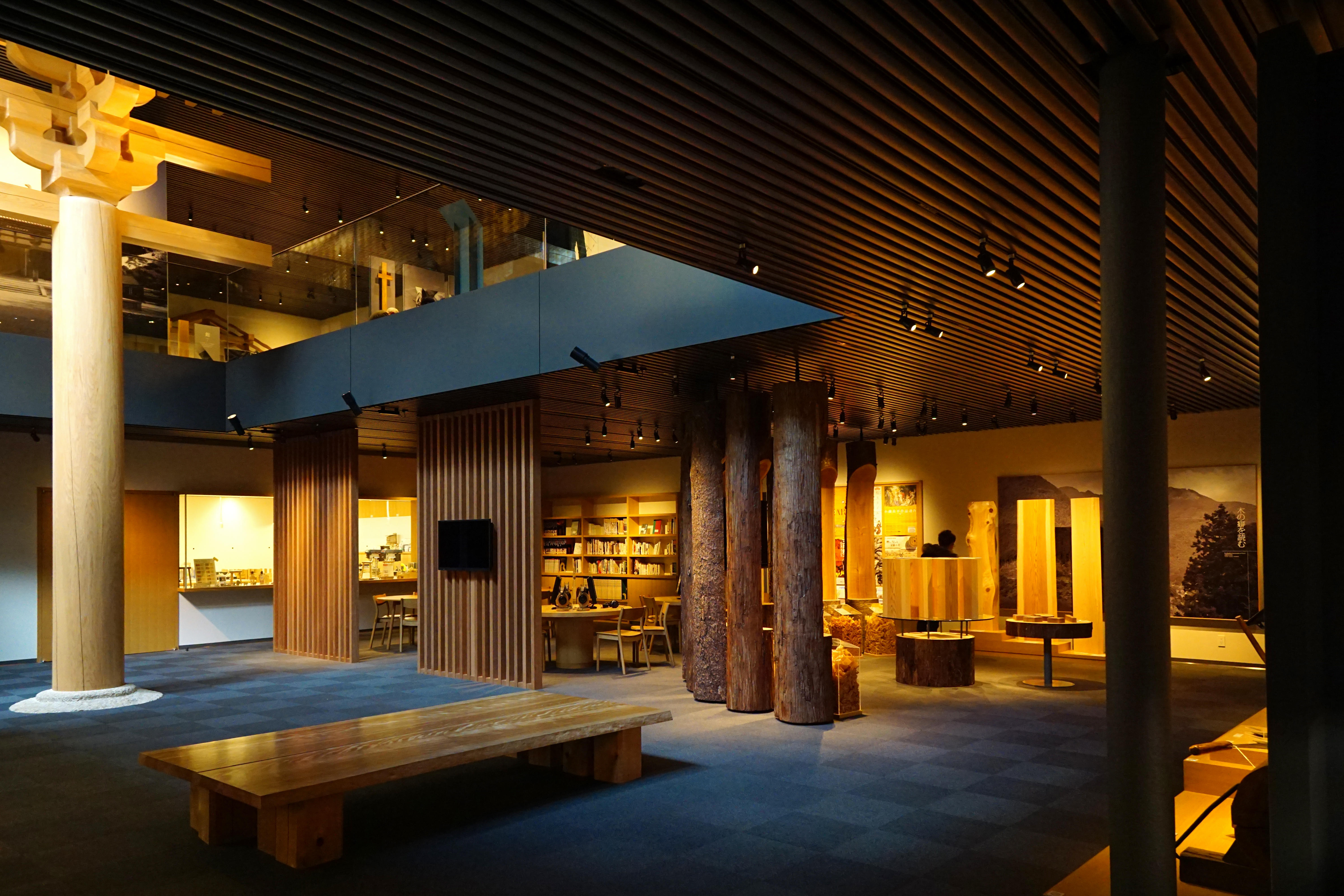 Takenaka Carpentry Tools Museum in Kobe, Hyogo prefecture, Japan.